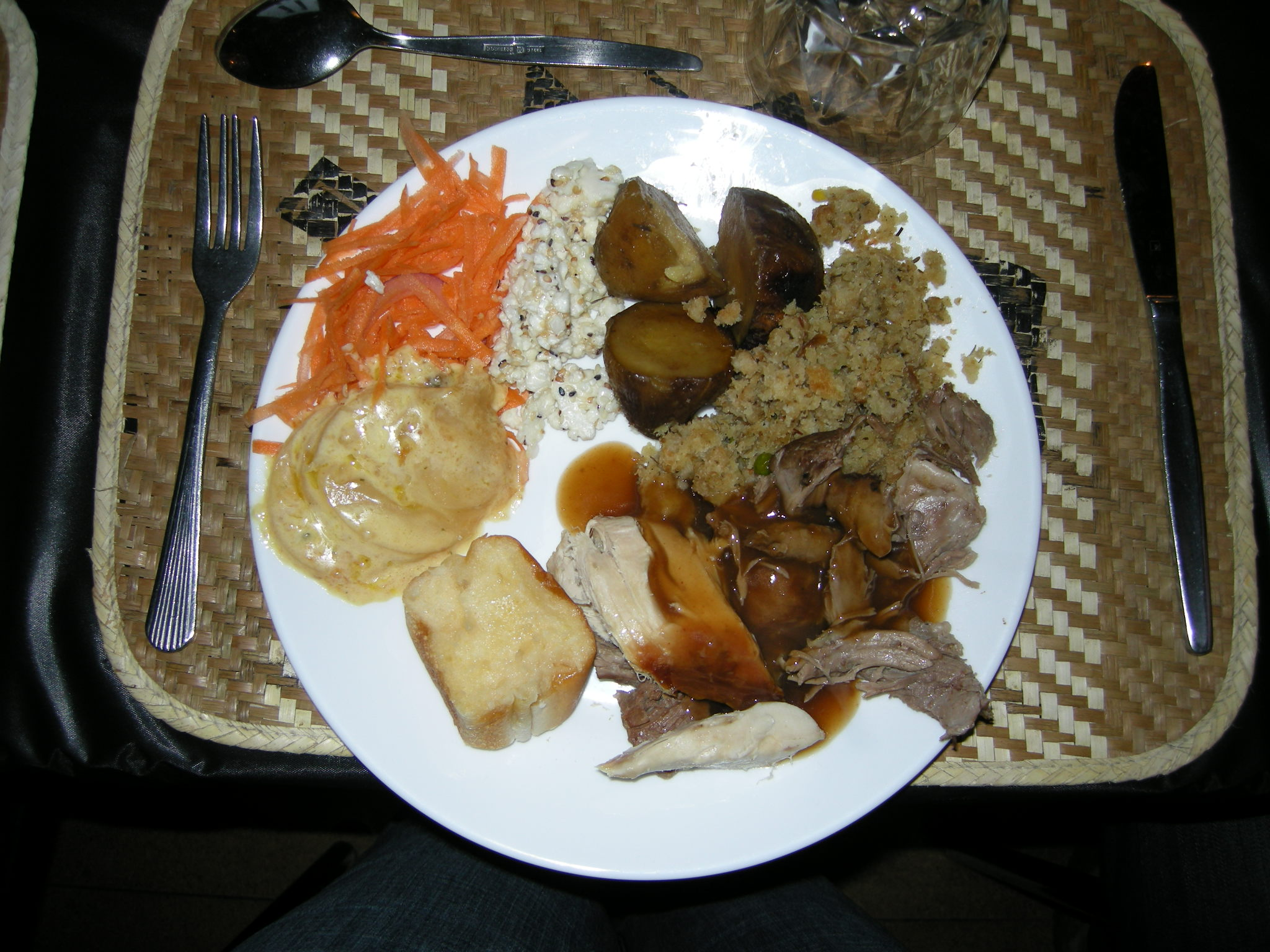 A hāngi dinner as prepared for tourists at Mitai Maori Village, Rotorua.